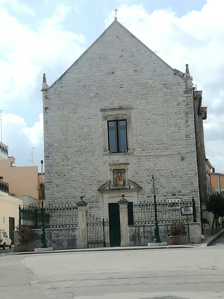 Monteverde Church in Grumo Appula